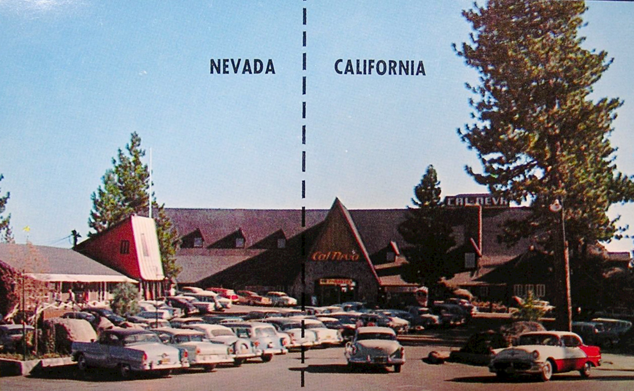 Postcard photo of the Cal Neva Lodge at Lake Tahoe.